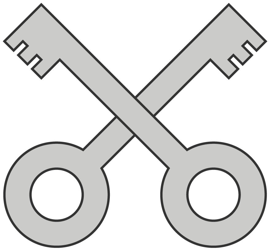 Cross Keys emblem to illustrate gestalt principle of Good Continuation